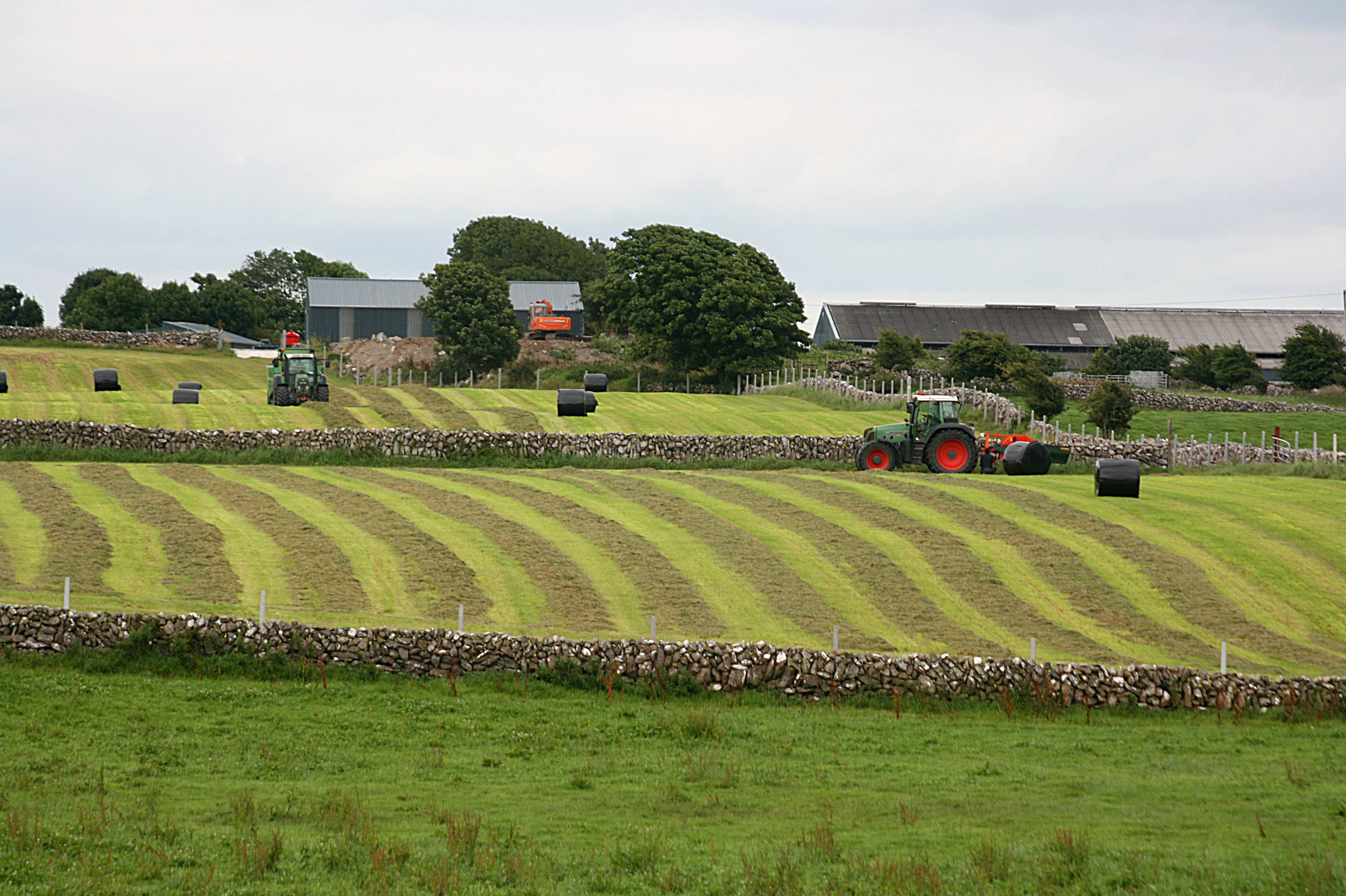 Baling silage near Maree, County Galway, Ireland; a Fendt tractor on the right